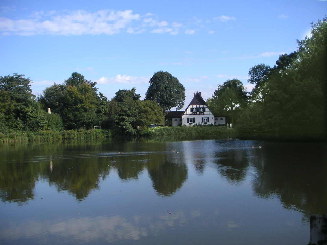 Timbered house in the city forest of Buer (Germany)